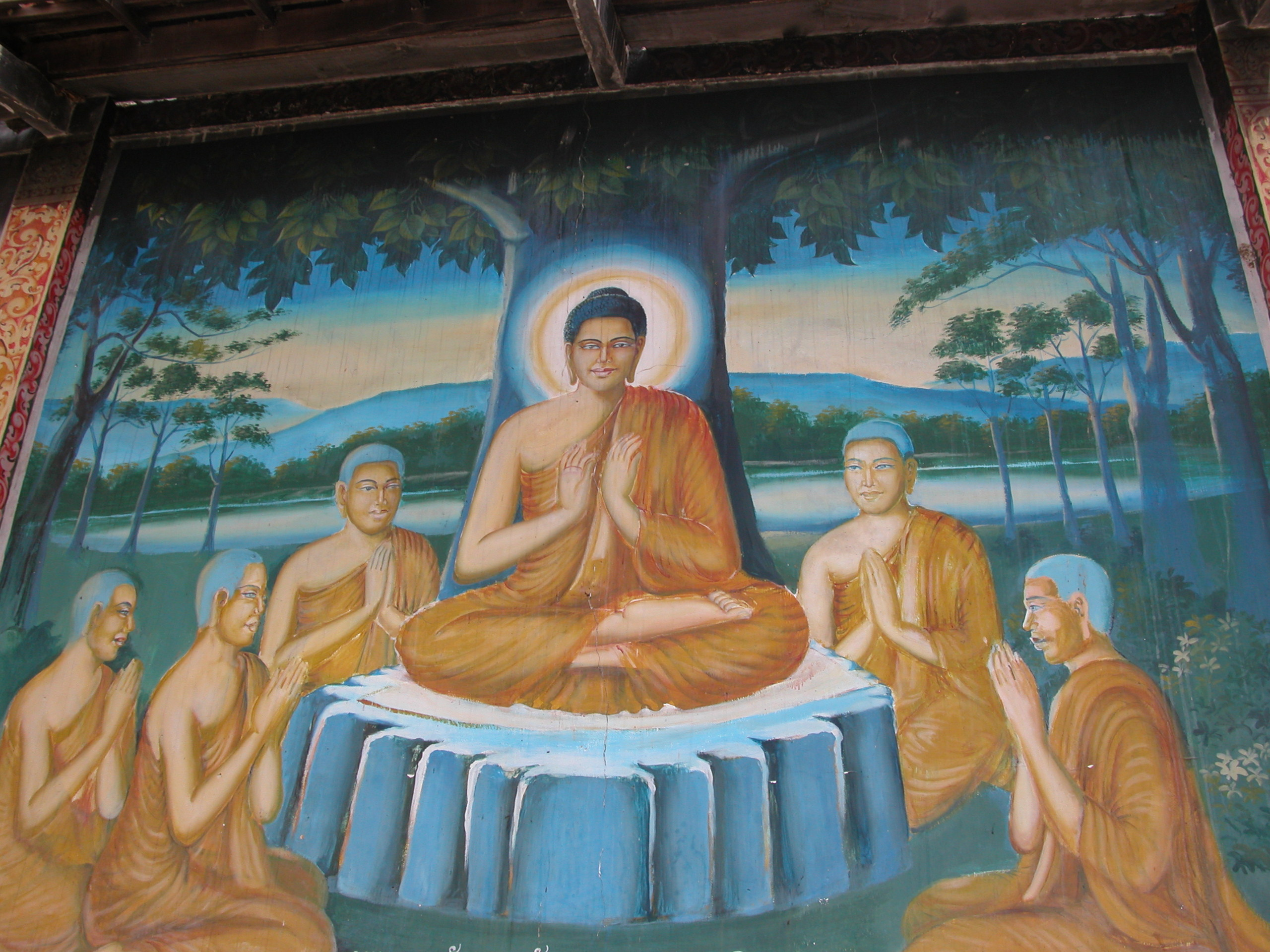 A wall painting on the main hall of Mahatup Pagoda, Soctrang city.